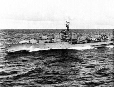 The Royal Navy destroyer HMS Finisterre (D55) underway. Finisterre was taking part in operation "Limejug II", an anti-submarine exercise with U.S. Navy Task Group 83.3 with the aircraft carrier USS Essex (CVS-9), and the Royal Canadian Air Force.